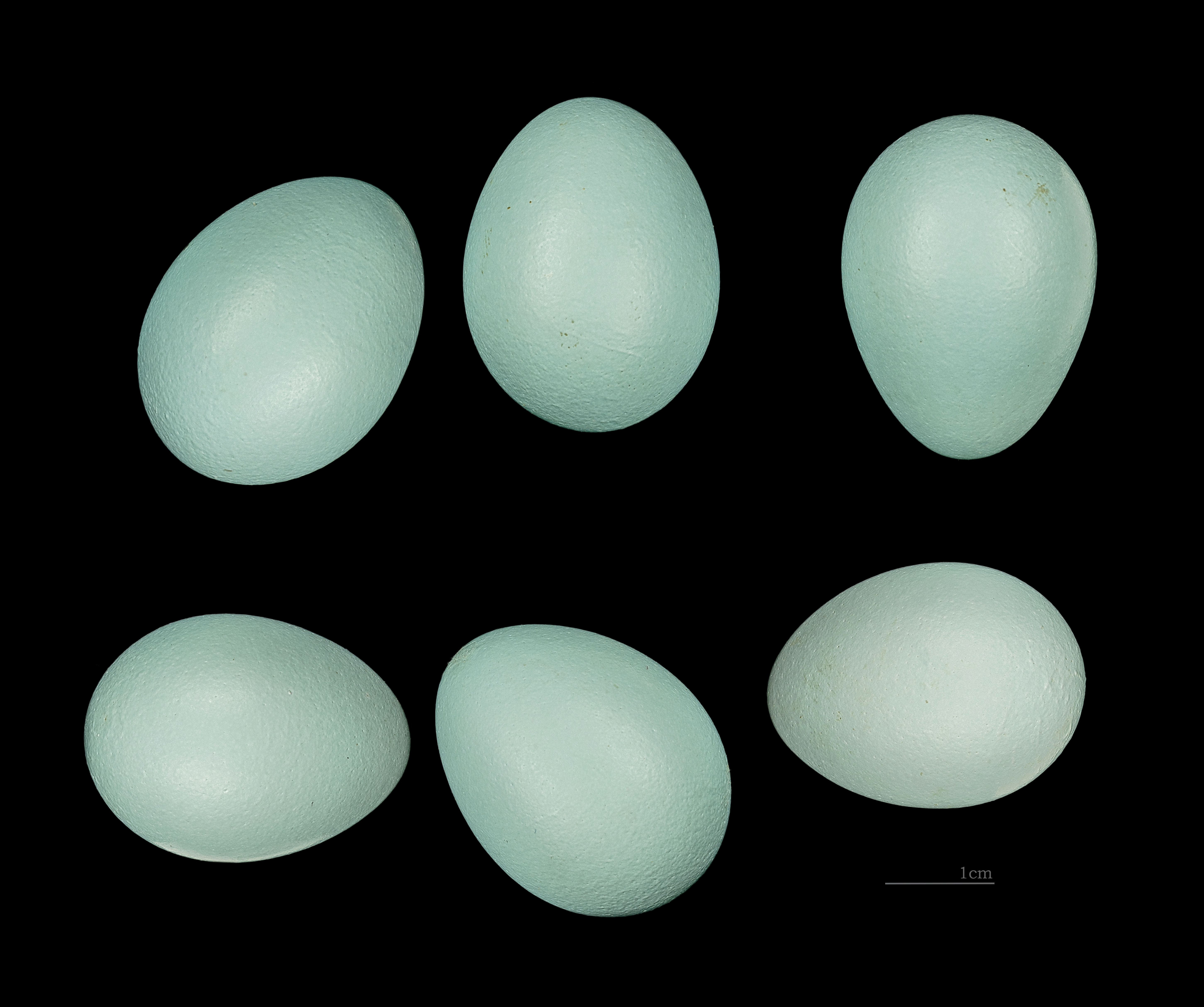 Egg of Common MynaCollection of Jacques Perrin de Brichambaut.